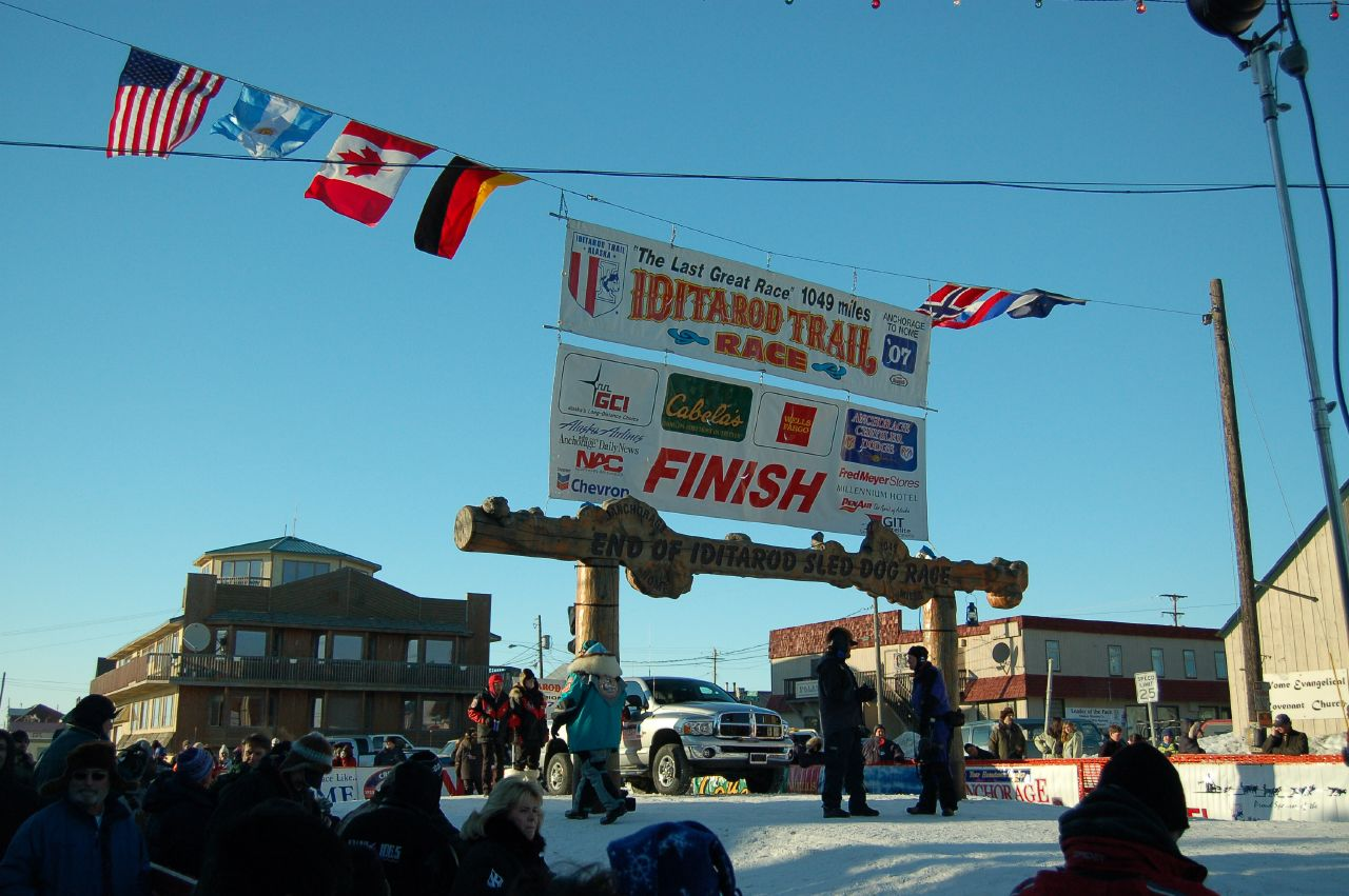 The Burled Arch in Nome, Alaska, the finish line of the Iditarod race